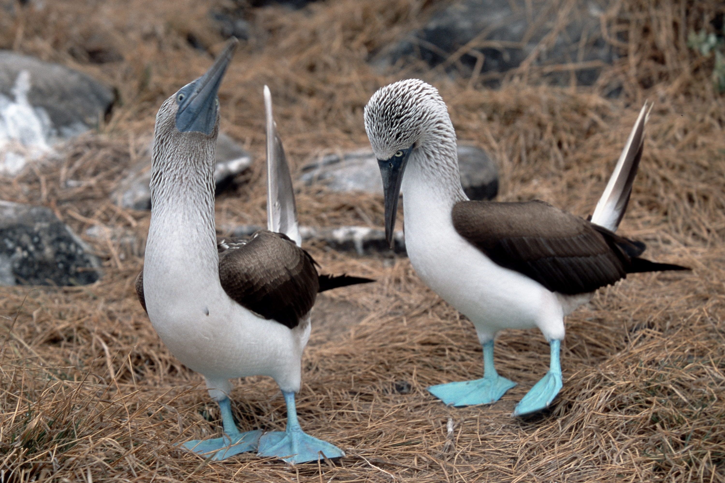 Blue-footed boobies on Española